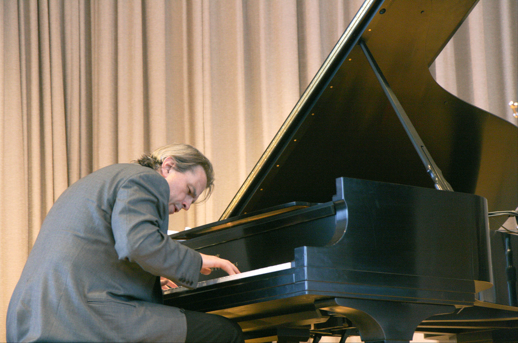 David Hazeltine, part of Eric Alexander's Quartet which performed 2/11/2007 as part of the Art of Jazz series at the Albright-Knox Art Gallery.